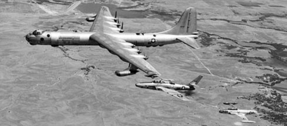 A U.S. Air Force Republic YRF-84F (s/n 51-1848) approaches the left wing tip of the Convair JRB-36F as a Lockheed T-33A flies chase over Texas (USA), in 1955.